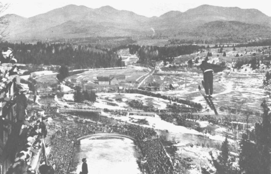 Birger Ruud in Lake Placid